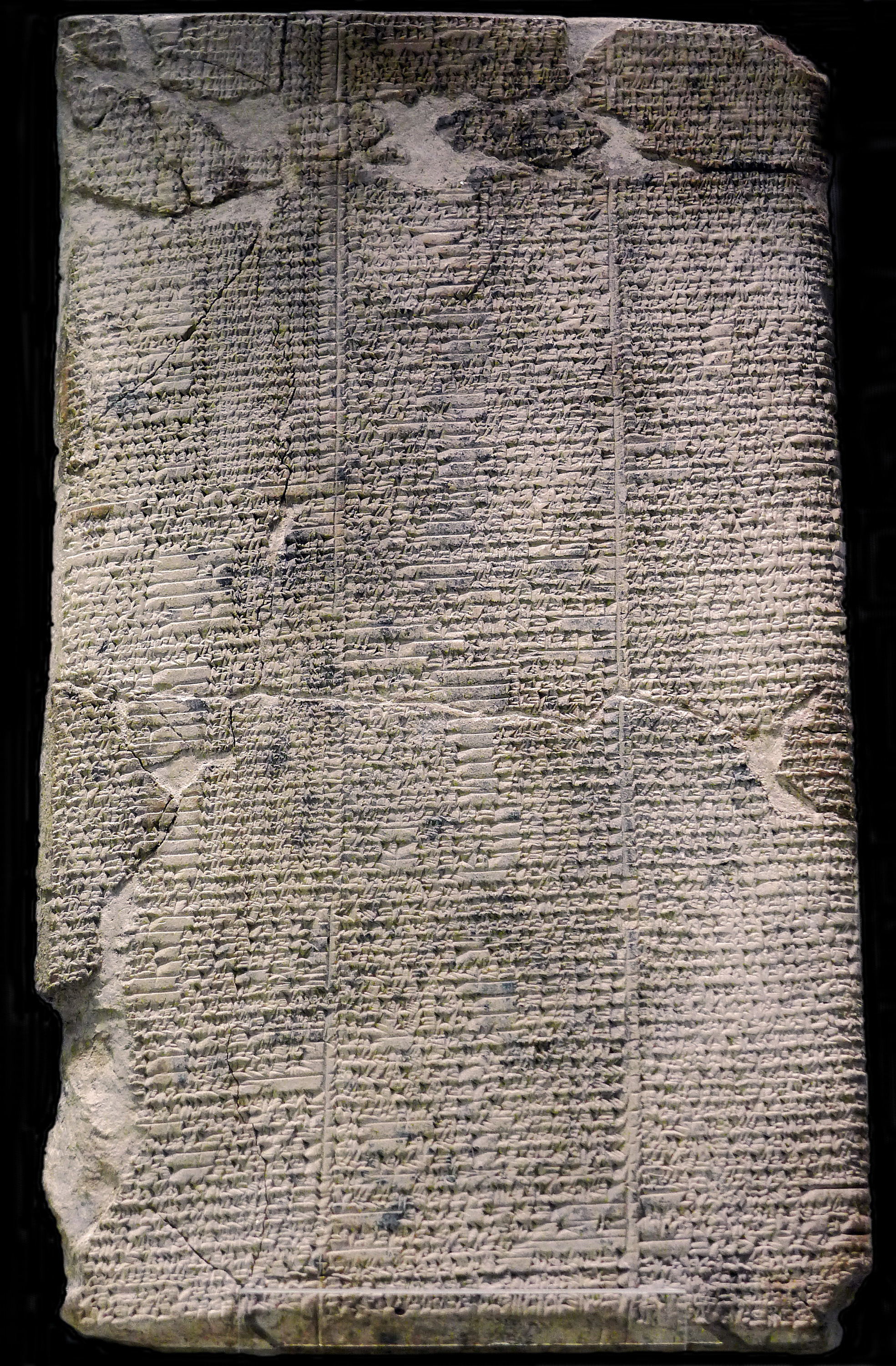 Laments over the ruin of Ur